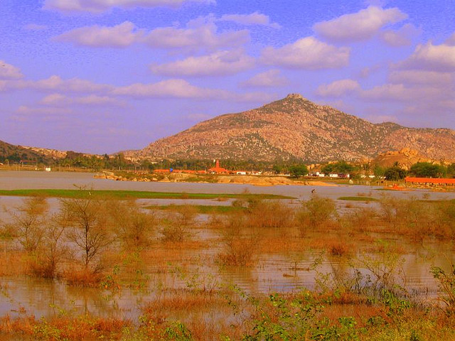 Scenic view near Chandragiri, Chittor district